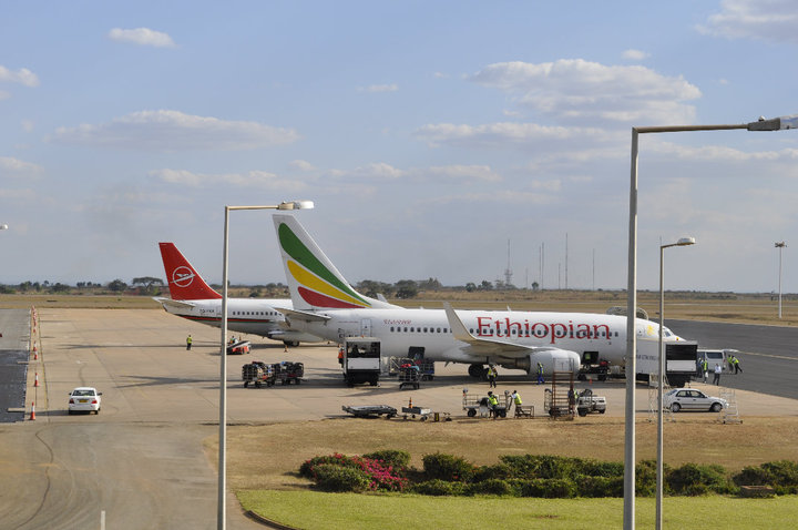 Ramp at Lilongwe International Airport with Ethiopian and Air Malawi Boeing 737 in June 2010.